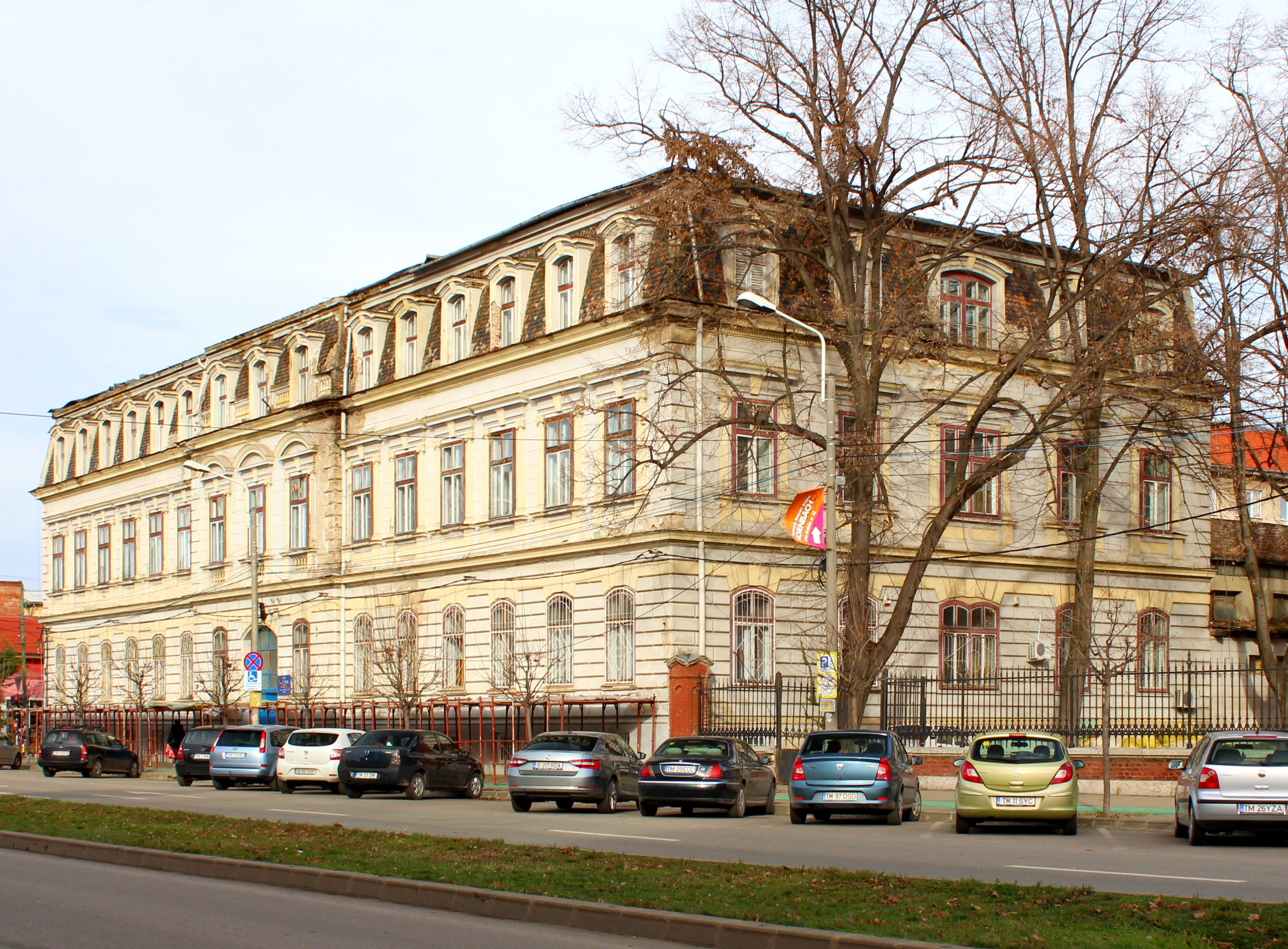 Highschool of Fine Arts, Timișoara, Romania, built in 1893